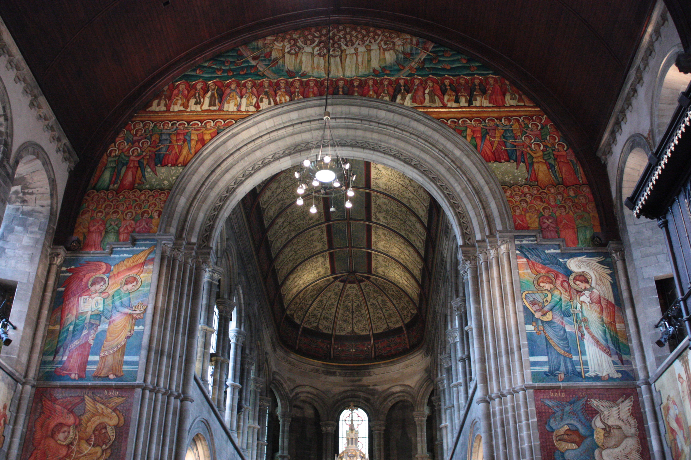 Phoebe Traquair's murals, Catholic Apostolic Church, Edinburgh (east end)